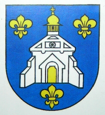 Halacovce_coat